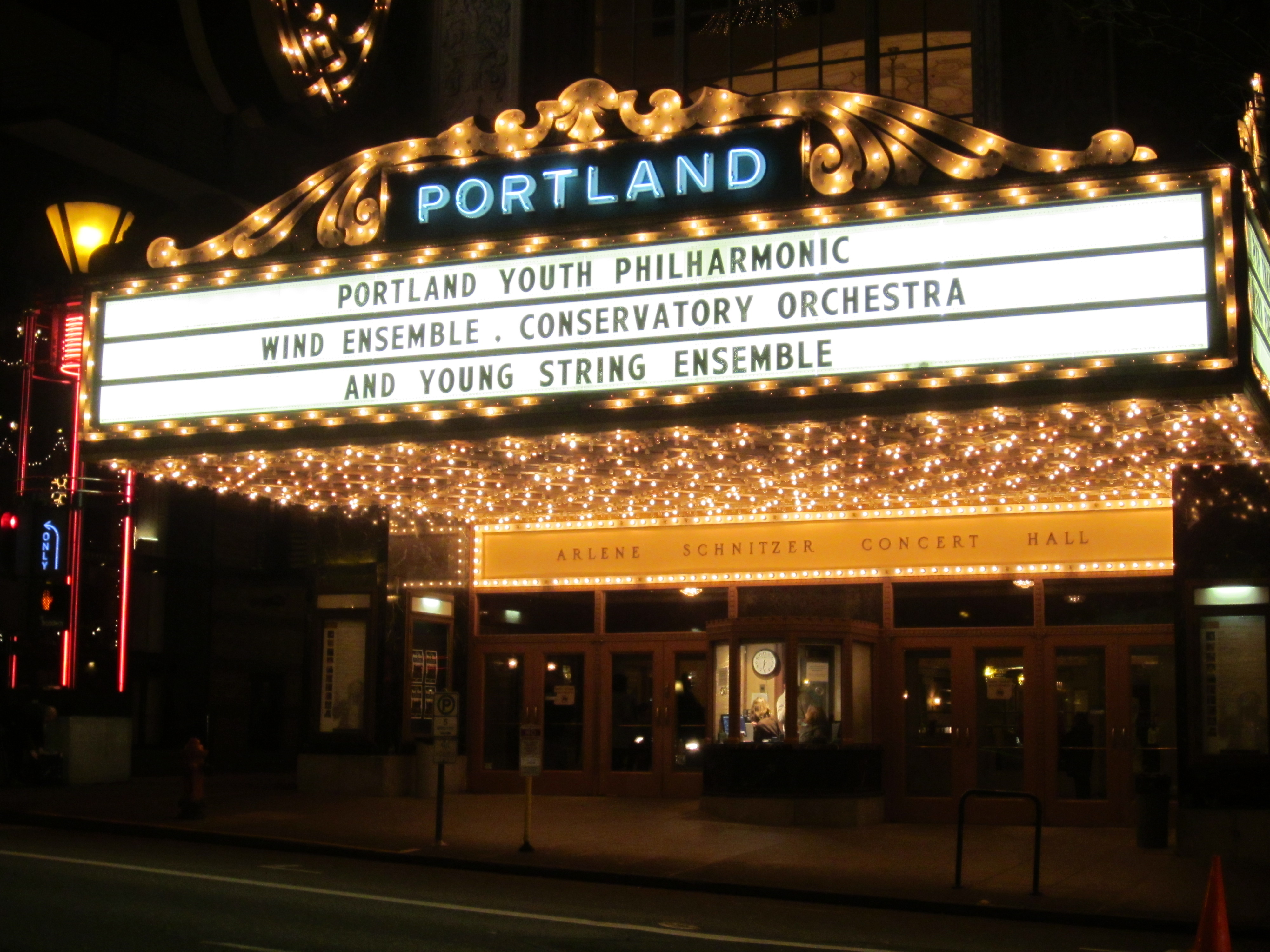 Portland Youth Philharmonic's annual Concert-at-Christmas at the Arlene Schnitzer Concert Hall in 2011